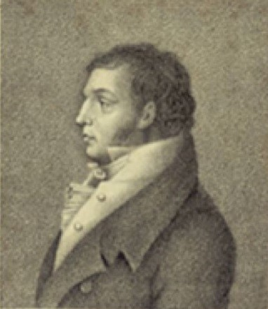 Portrait of the Italian tenor Eliodoro Bianchi (1773-1848)